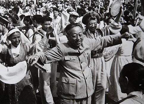 Zhu Dehai congratulating the 10th anniversary of the Yanbian Autonomous Prefecture